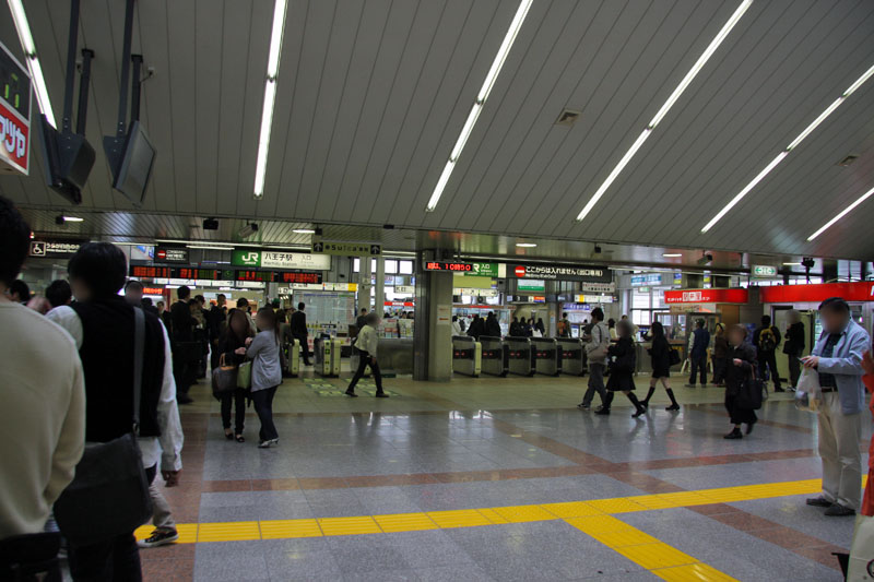 Fare gate of Hachioji Station